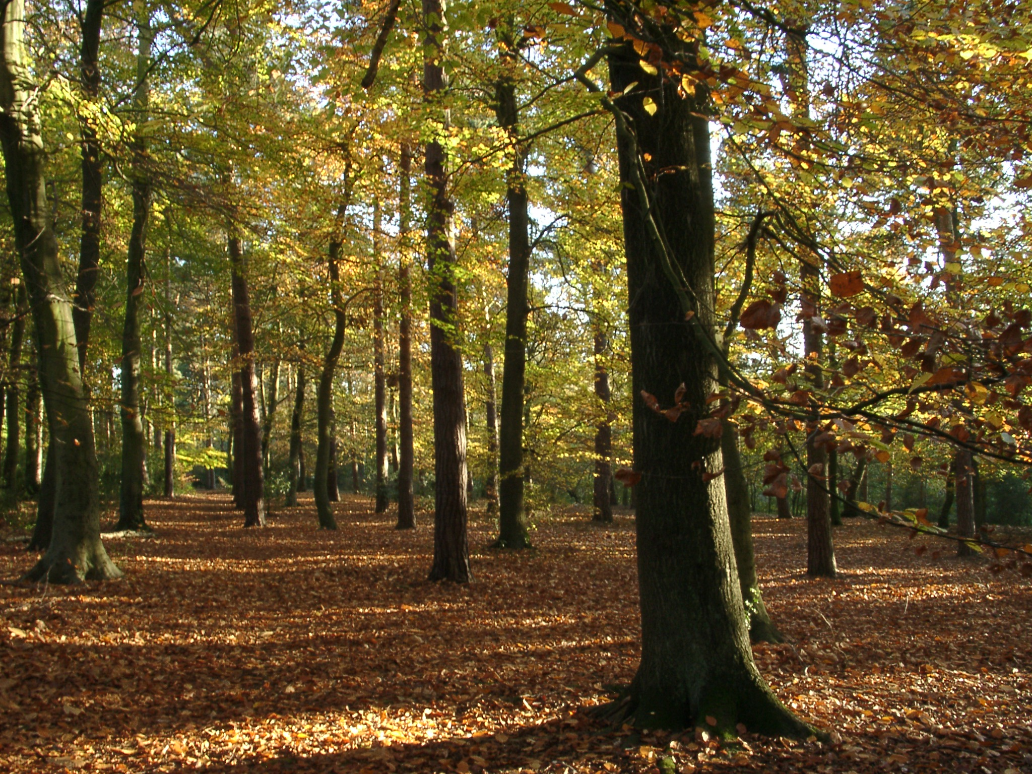 English Fagus sylvatica woodland autumn sunlit taken in Sutton Coldfield Park